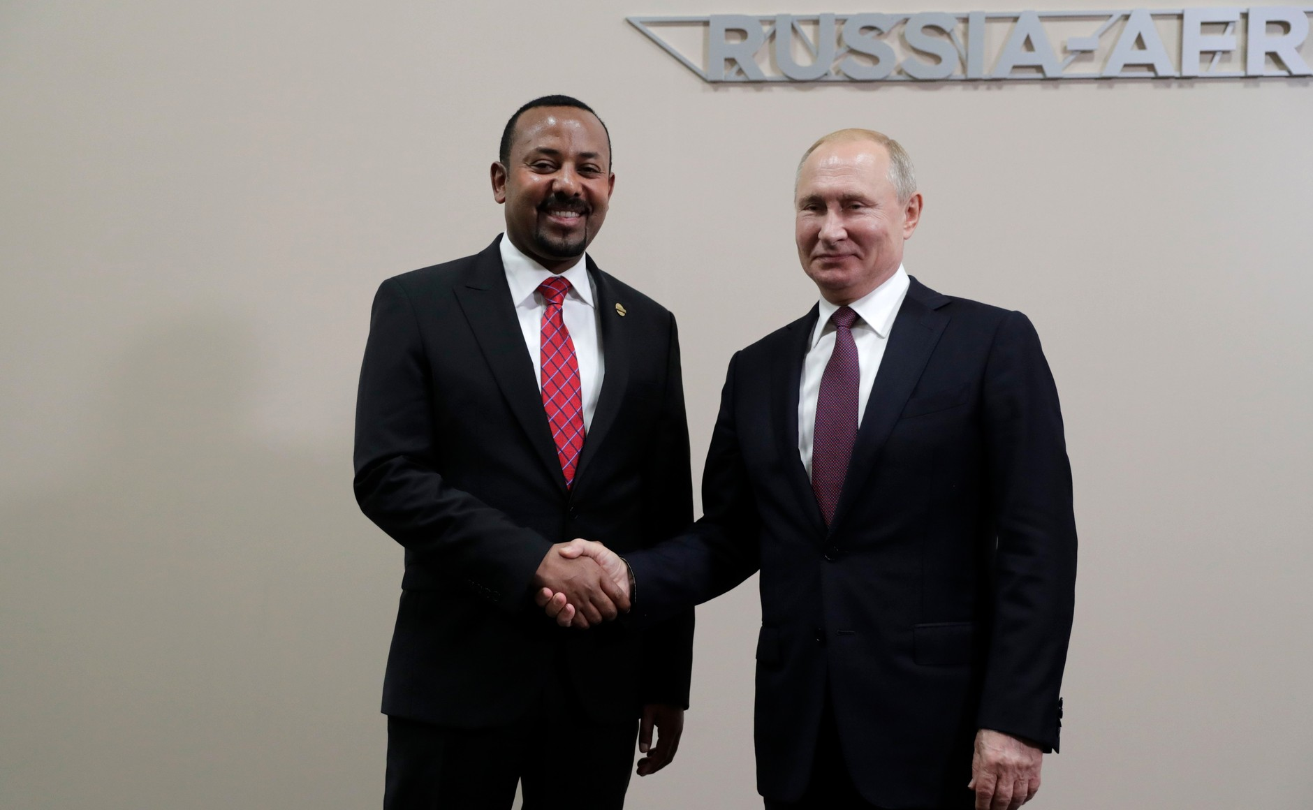 Meeting with Prime Minister of the Federal Democratic Republic of Ethiopia Abiy Ahmed.